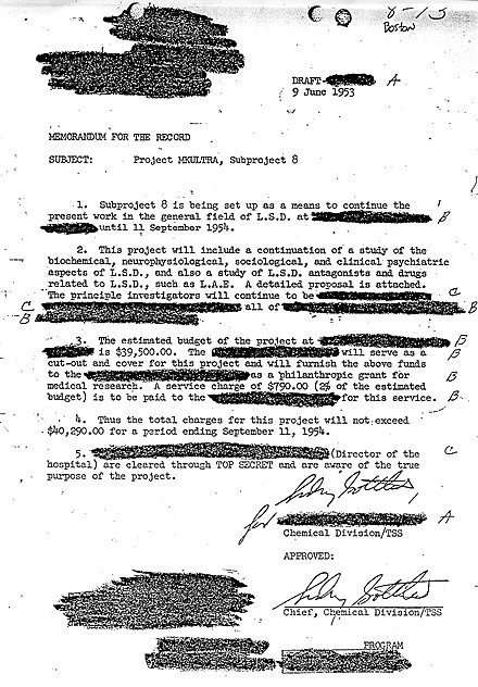 This image was copied from :en:wikipedia